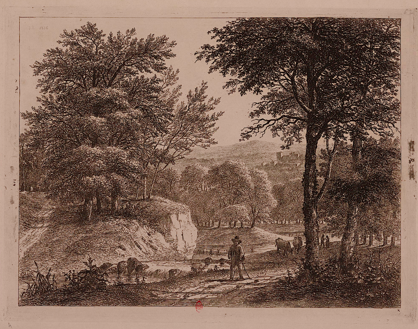 L'Homme indécis, paysage à Saint Bel, etching, dim.: 17,2 x 22,7 cm.